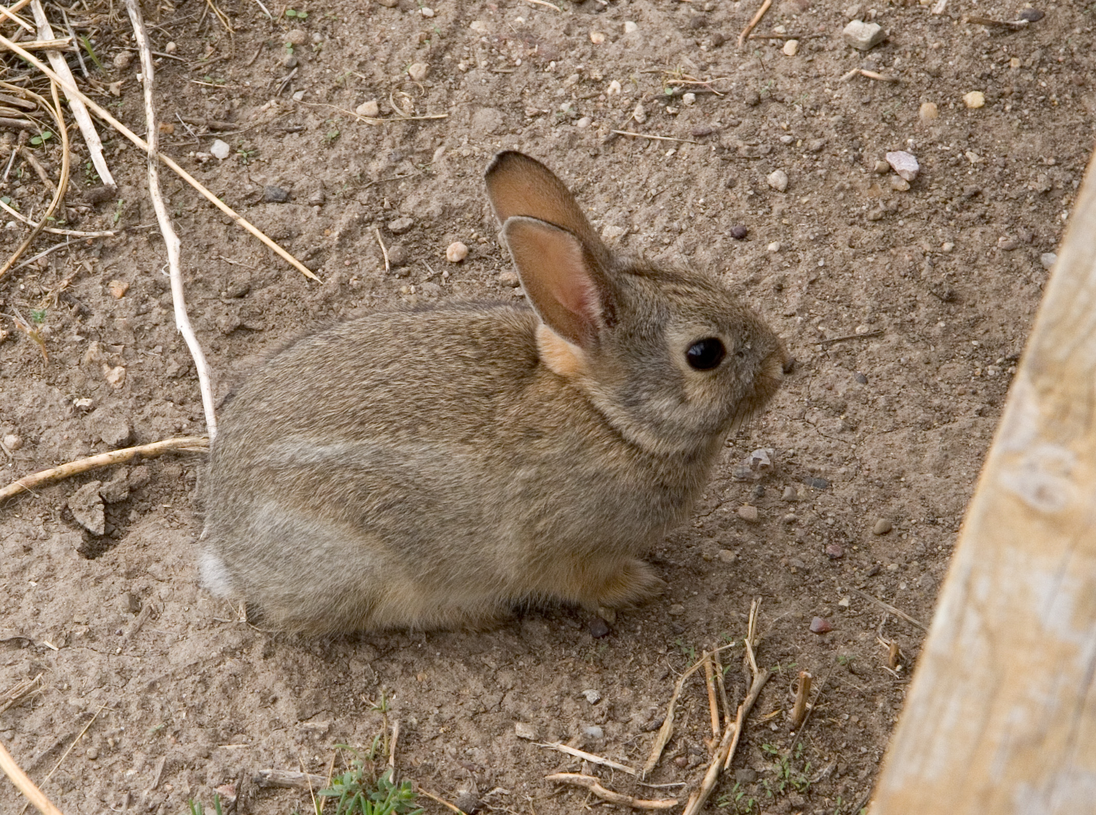 Badlands NP 2006-09-03